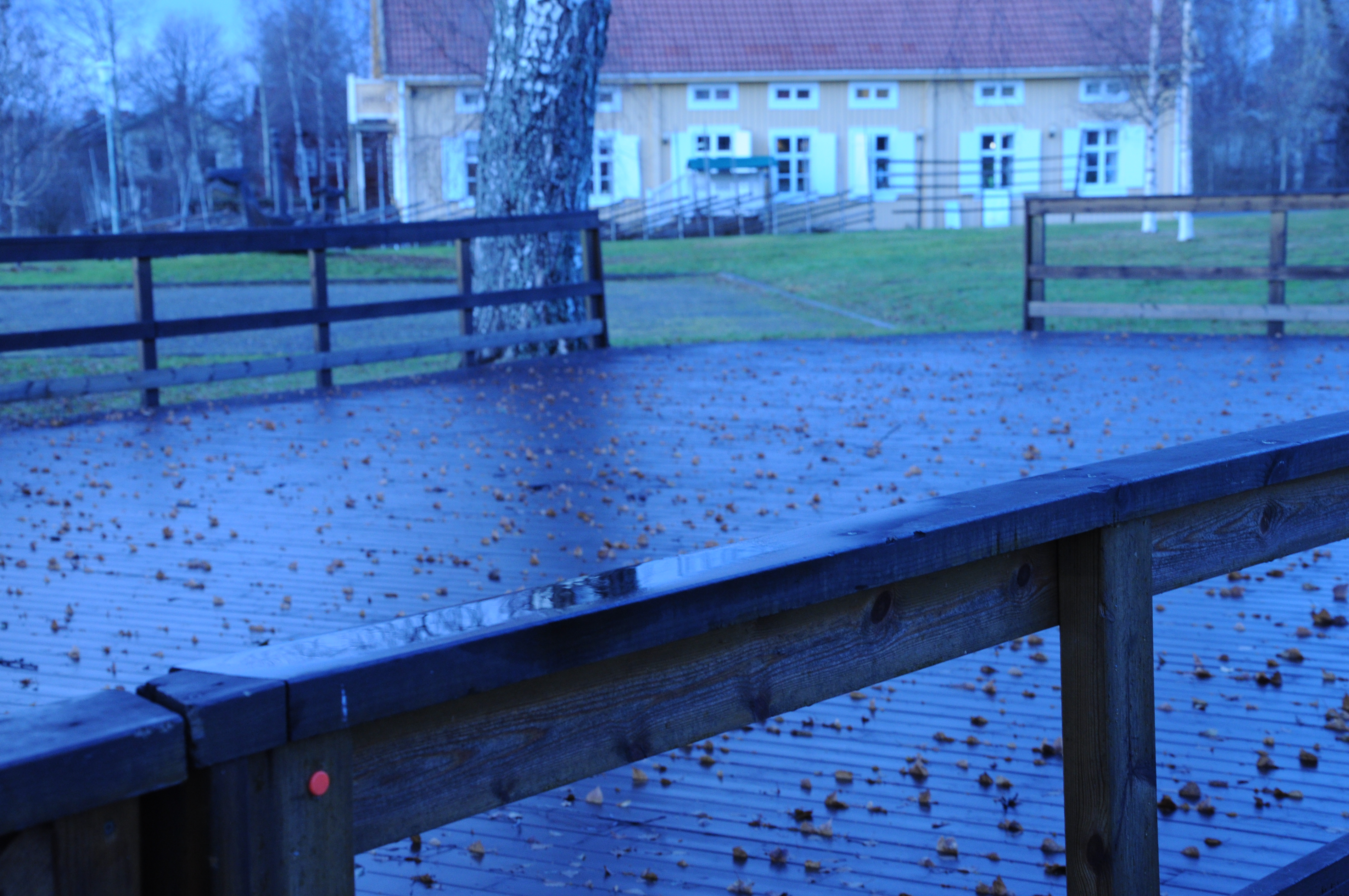 Moisture. Outdoor stage in November in Nordanå, Skelleftå, Sweden.